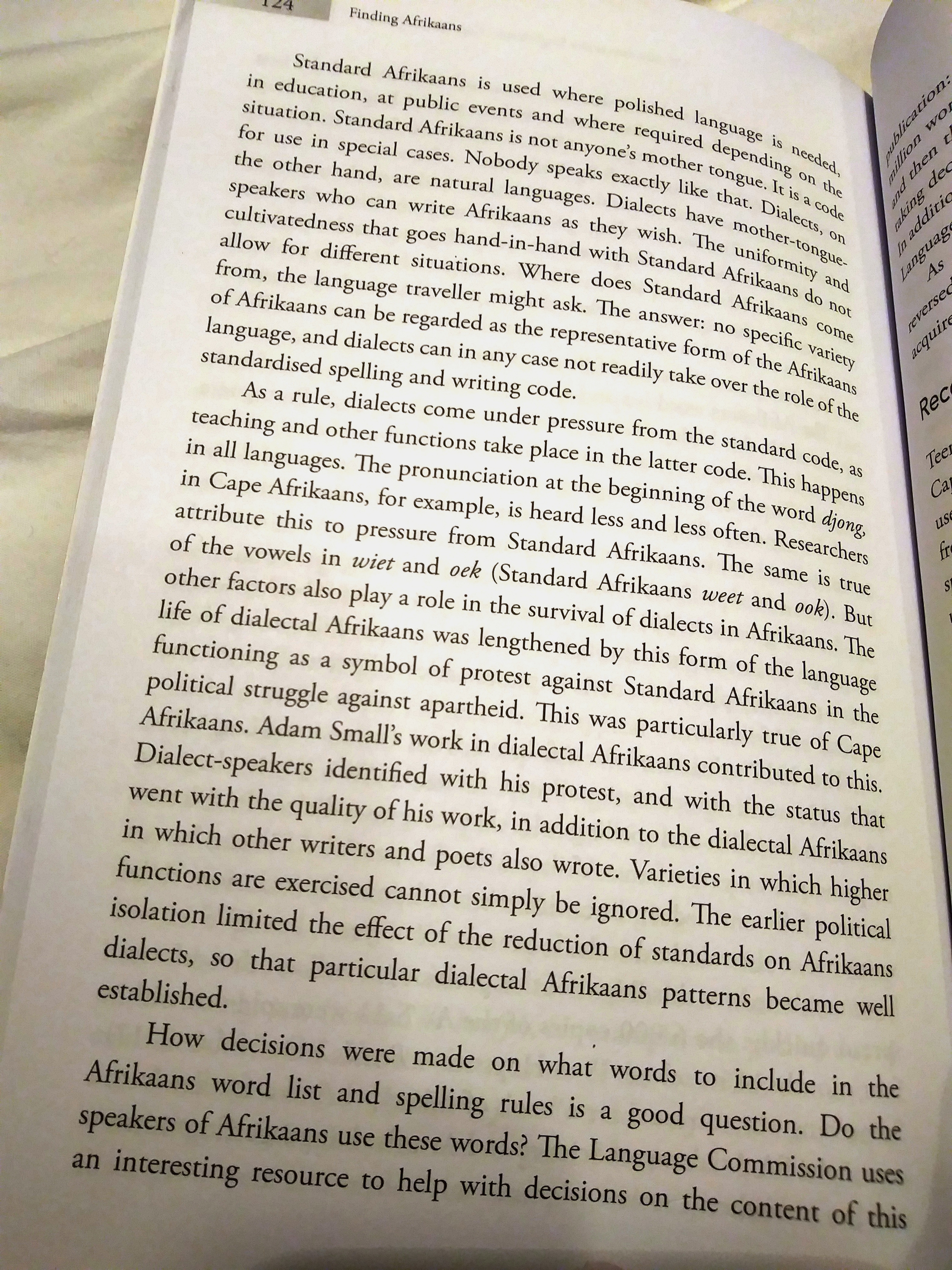 Adam Small - reference to him in 'Finding Afrikaans' boook by Christo van Rensburg (LAPA publishers, South Africa, 2018)